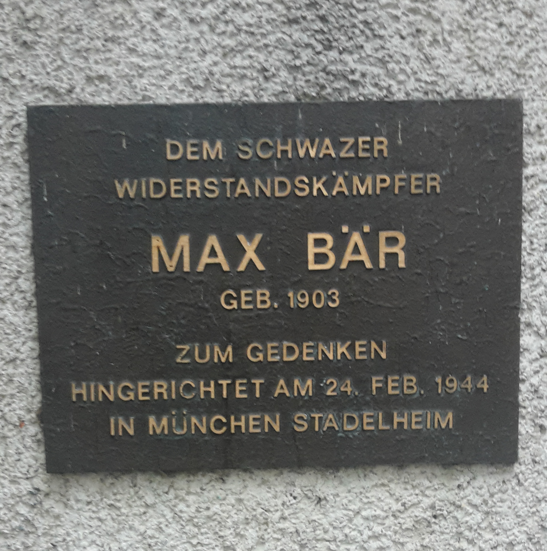 Commemoration sign for the resistance fighter Max Bär from Schwaz